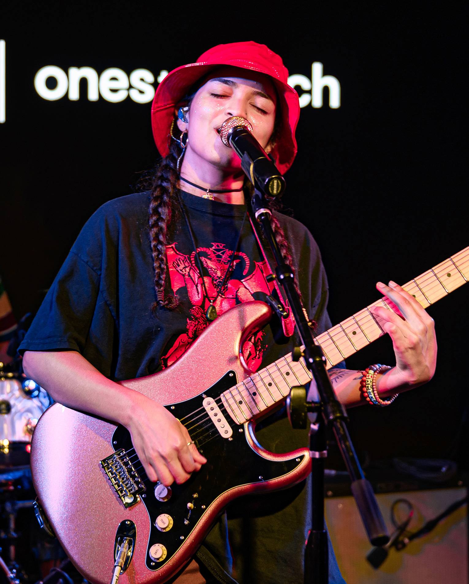 Ambar Lucid performing live at the "All Eyes On..." showcase at Live Nation in Los Angeles on 10/02/2019.